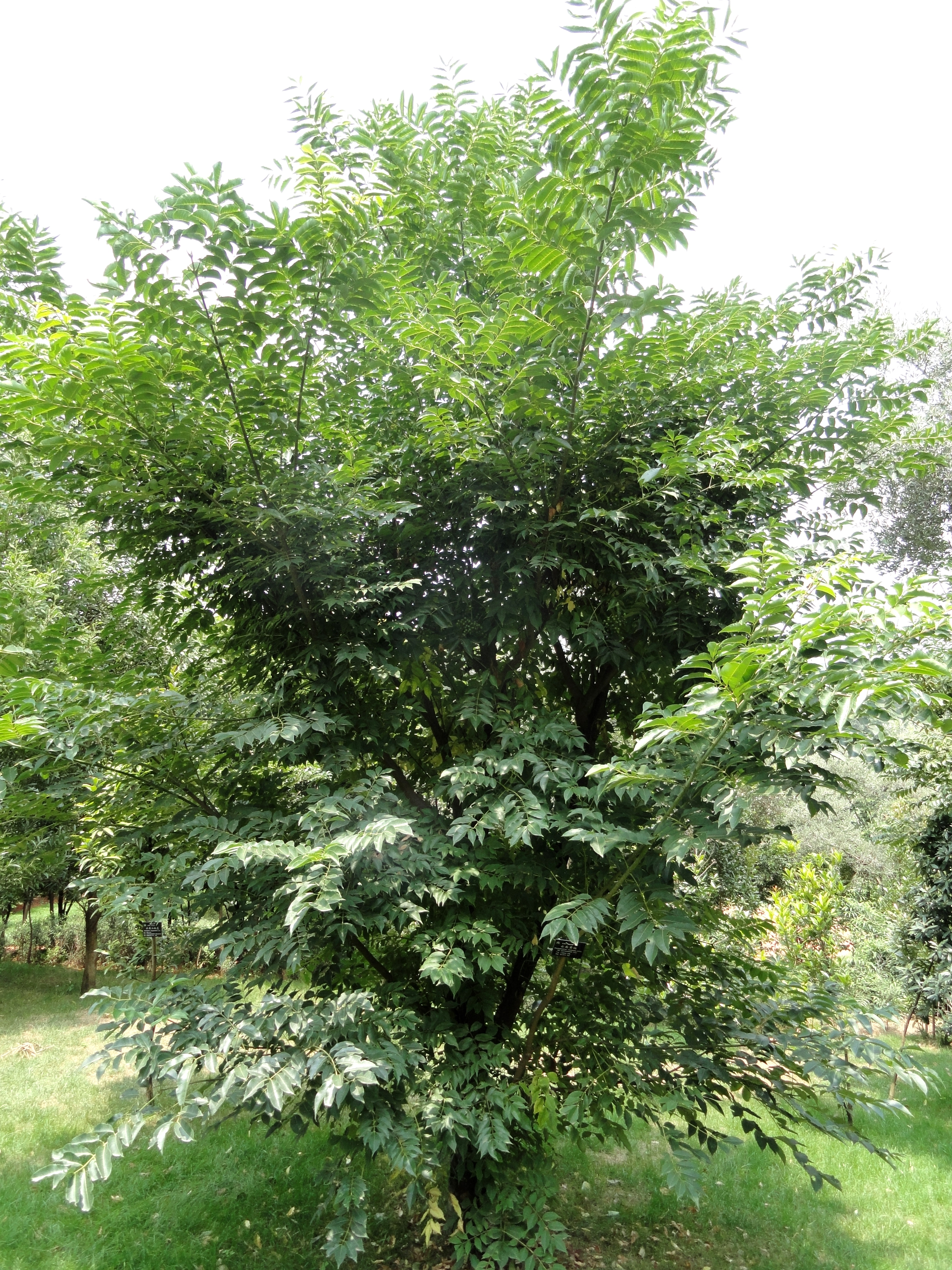 Plant specimen in the Kunming Botanical Garden, Kunming, Yunnan, China.